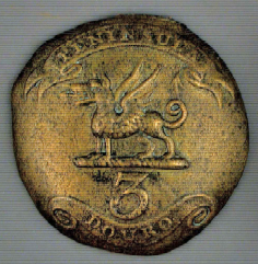 3rd Regiment Shako Plate or brass badge from Fort Dundas in the Northern Territory of Australia now held at the Museum and Art Gallery of the Northern Territory. REC 0332